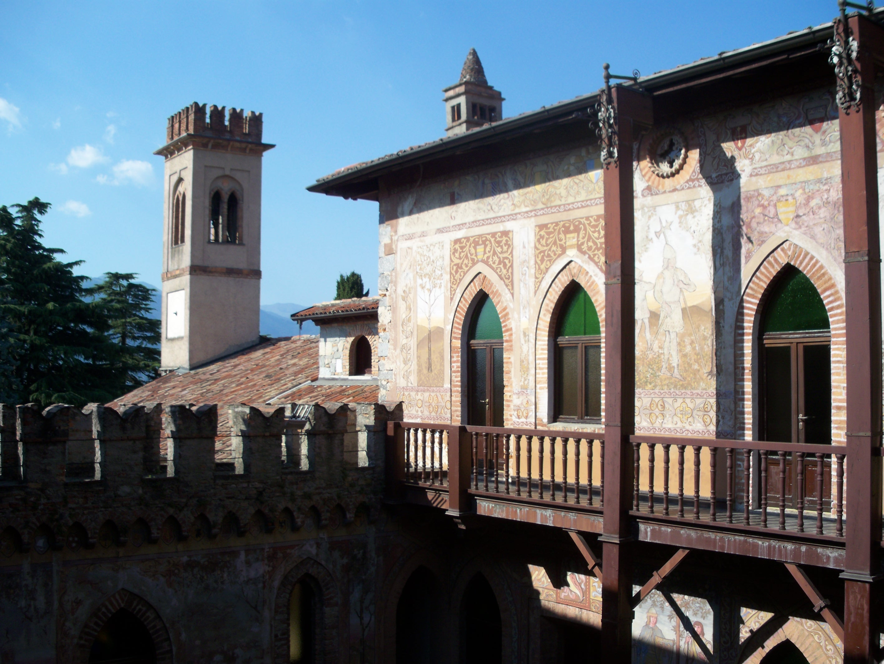 Monguzzo Castle